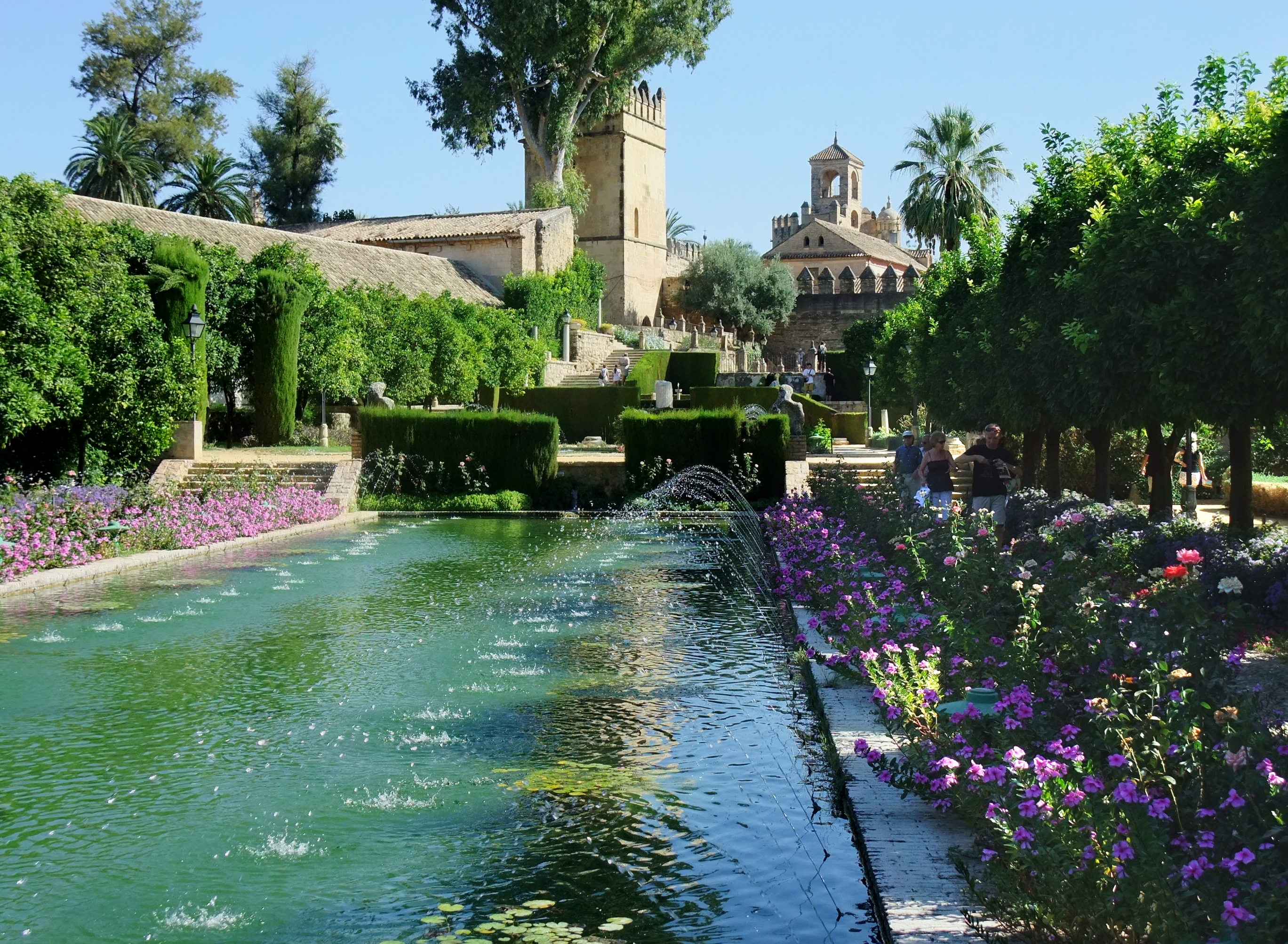 Garden of Alcazar of the Christian Monarchs in Córdoba, Spain